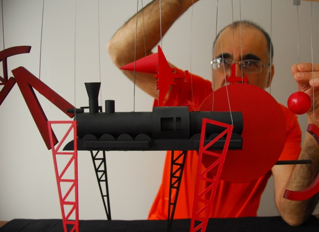 Iosef Yusupov in his studio designing a train model for the 2014 Olympic Opening Ceremony in Sochi, Russia